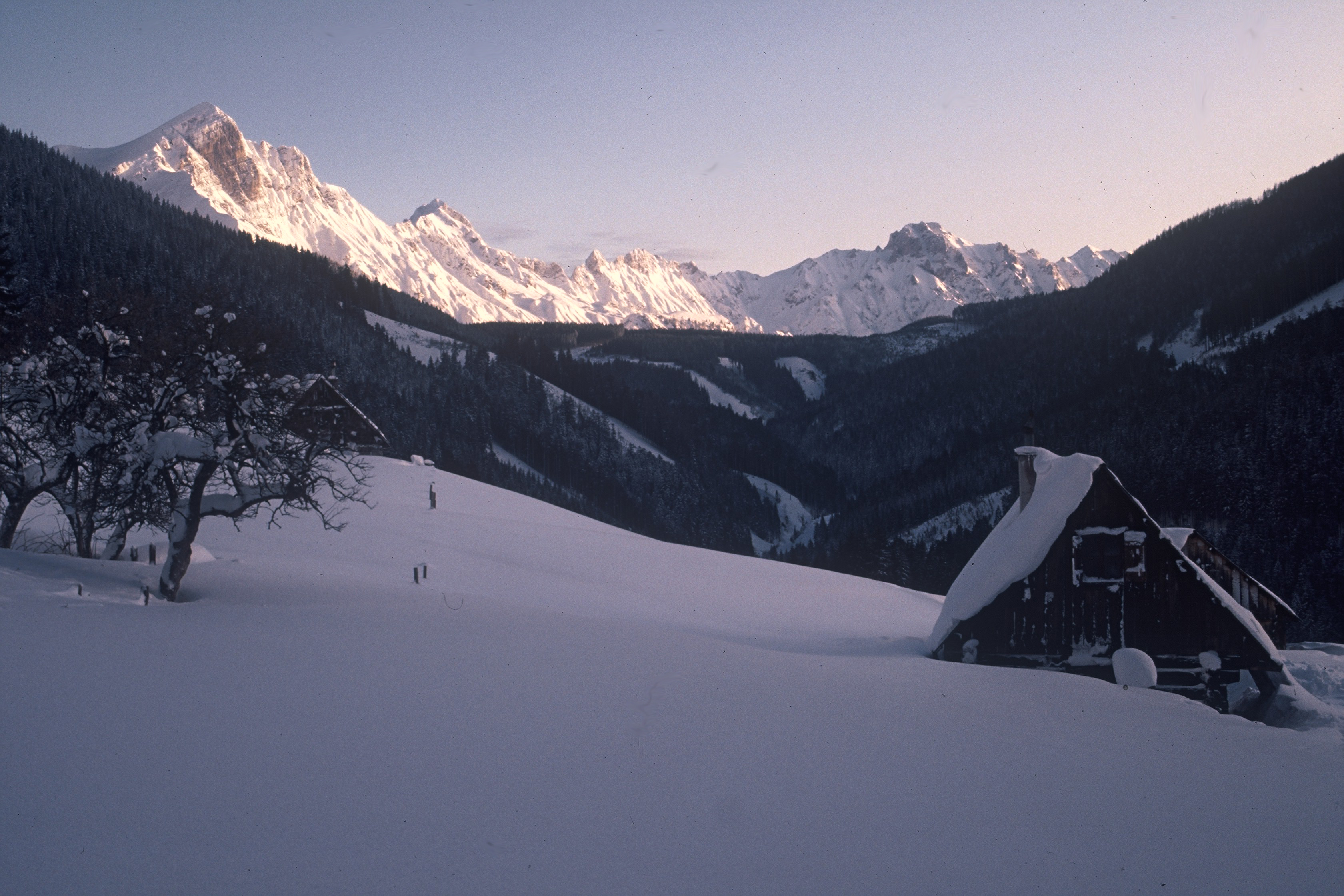 View from the Ardningalm to the Haller Mauern (NE), Styria, Austria. From left to right: Scheiblingstein, Kreuzmauer, Bärenkarmauer, Hexenturm, Natterriegel